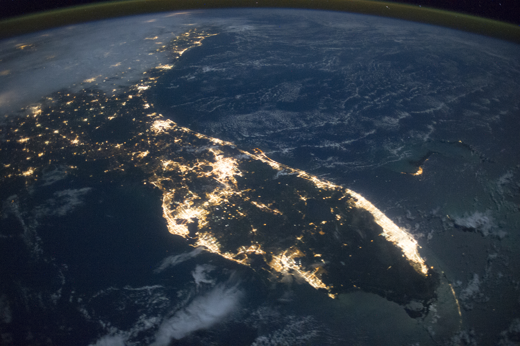 Image of Florida and part of southeast US from the International Space Station.